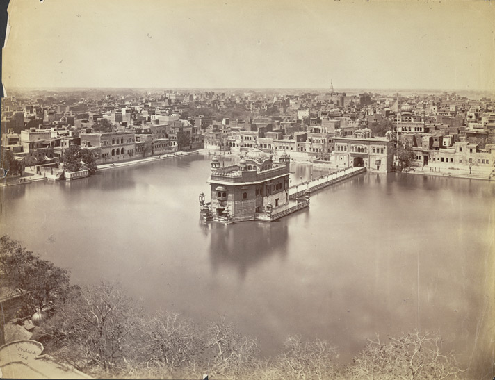 From the source, British Library: Photograph with a view of the Golden Temple and sacred reservoir at Amritsar in Punjab, taken by George Craddock in the 1880s, part of the Bellew Collection of Architectural Views. The city of Amritsar, largest in the Punjab and holy to the Sikhs, lies between the Beas and Ravi rivers, close to the Pakistan border. It is renowned for the Golden Temple (Harmandir), the holiest shrine in the Sikh religion. Amritsar is a derivative of the Sanskrit amrita sarowar or 'pool of nectar', and the third Sikh Guru, Amar Das (1552-74) came to this area of forested tranquillity around the pool. His successor Guru Ram Das, may have been offered the land as a gift by the Mughal Emperor Akbar, but also paid the local Jat peasantry. In any case, the association of the gurus with the area made it a place of pilgrimage, and the fifth Guru, Arjan (1581-1606), added the Harmandir to the site. The city developed and in the 18th century acquired the name Amritsar. The original simple structure was brick-built in the centre of the pool, with a connecting causeway. With the expansion of Sikh power in the 19th century, the temple evolved into the Darbar Sahib complex, replete with gilding, marble and inlay decoration.